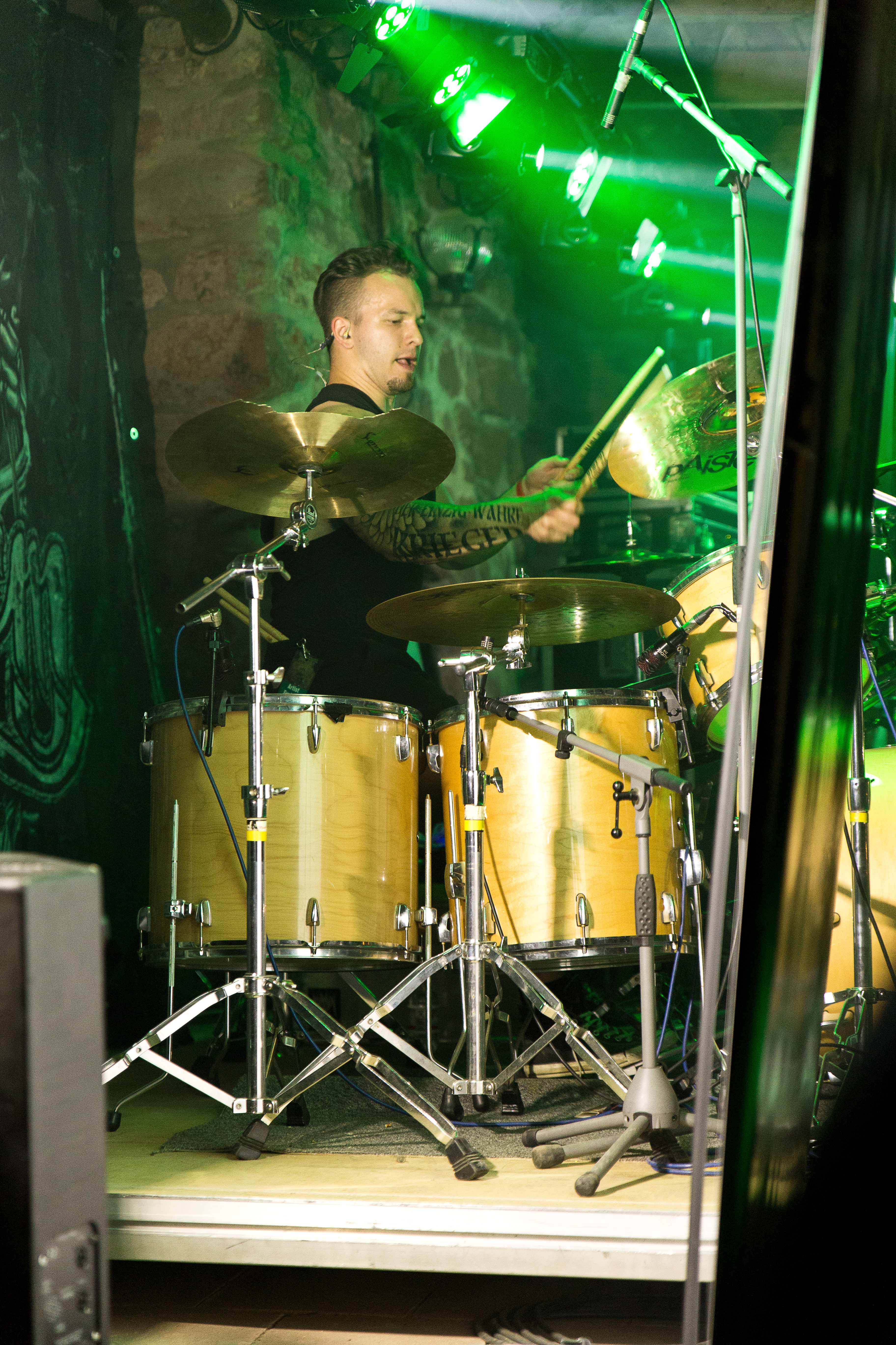 The Italian dark metal band Graveworm at the Dark Troll Open Air 2016 in Bornstedt/Germany.